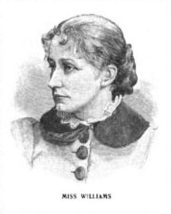 A portrait of Anna Willess Williams, said to be the model for the obverse of the Morgan dollar coin